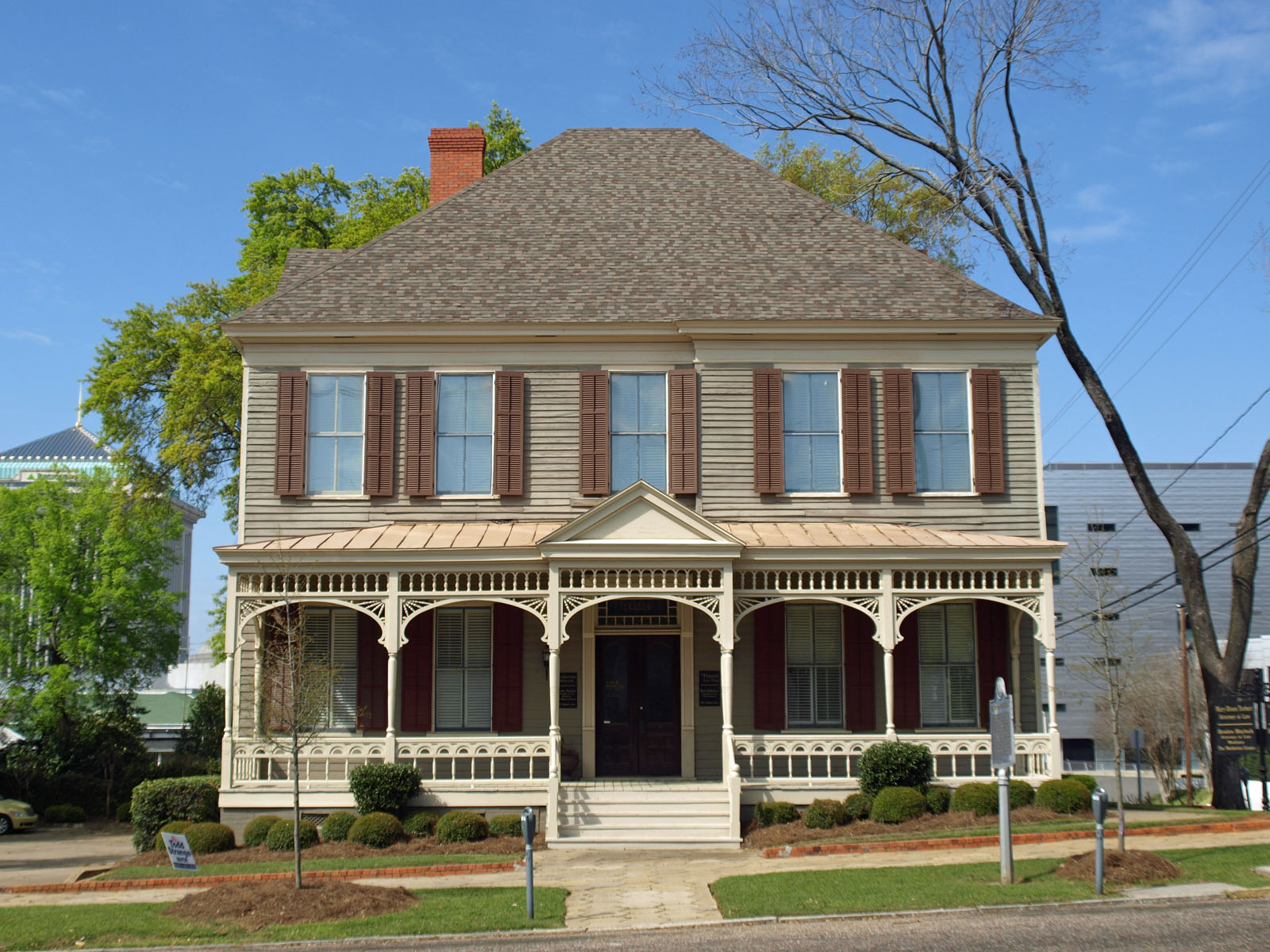 Front (south) side of the Governor Thomas G. Jones House in Montgomery, Alabama